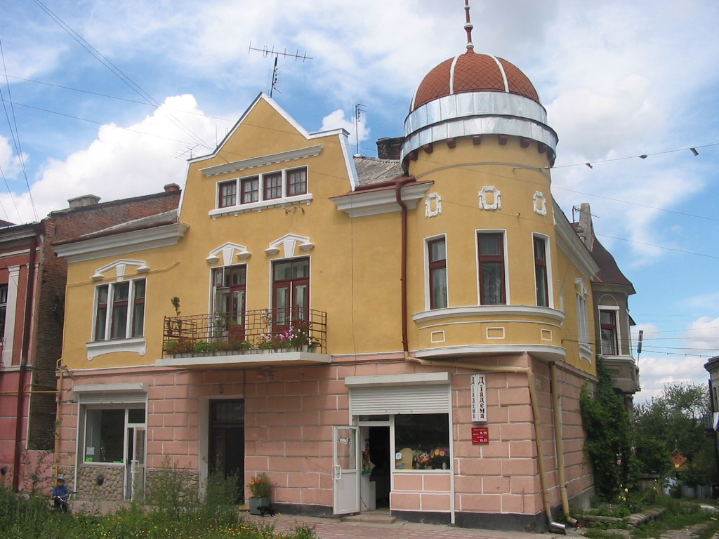 Historical house at the main town square of Pidhaytsi, western Ukraine